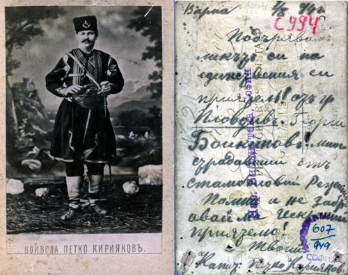 Petko Voyvoda, Bulgarian revolutionary